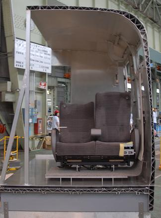 The cross-section of the hull of Shinkansen N700 series